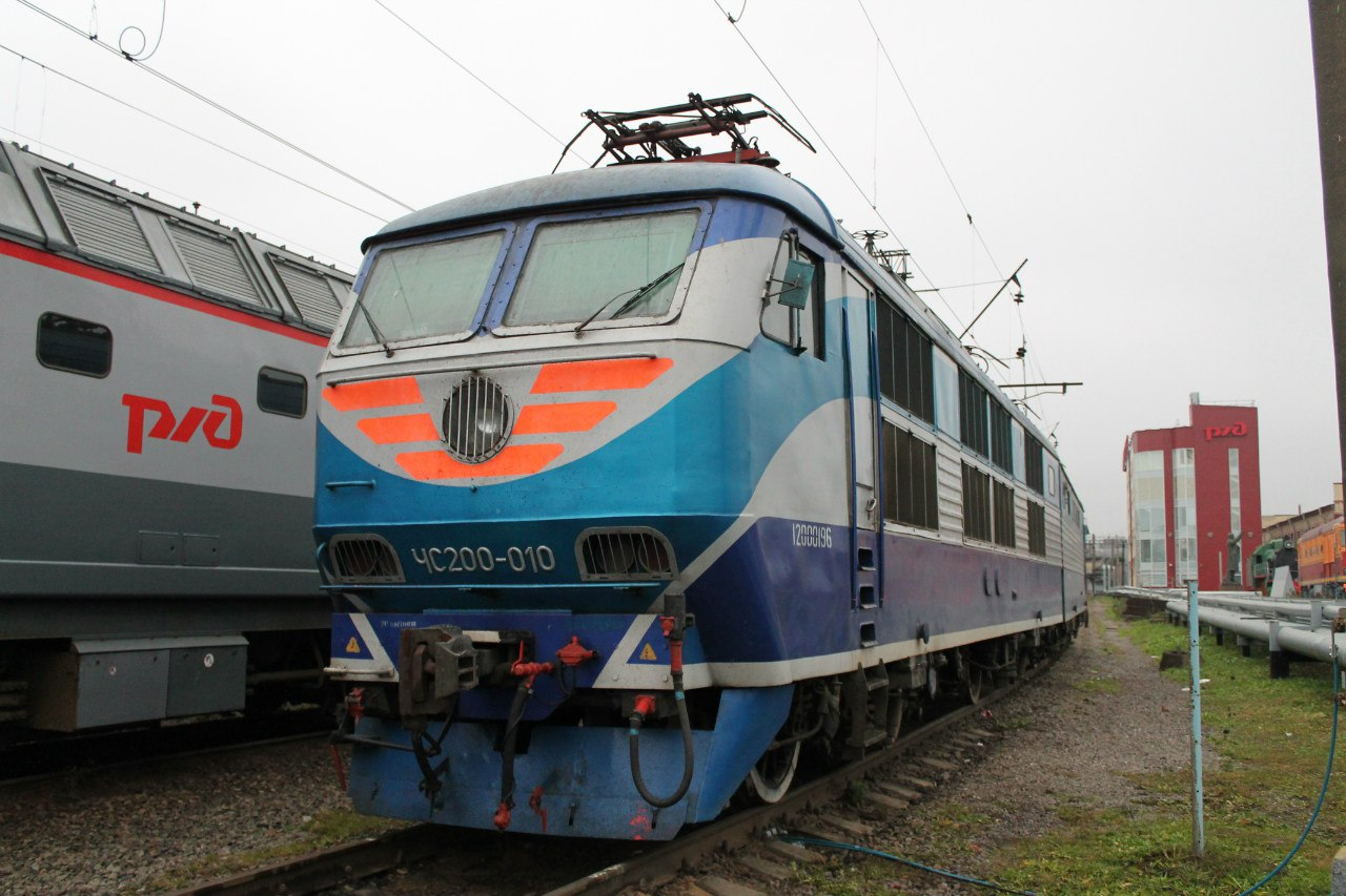 Electric locomotive ChS200-010 in depot №8 Saint-Petersburg-Passenger-Moscow, Saint Petersburg, Russia